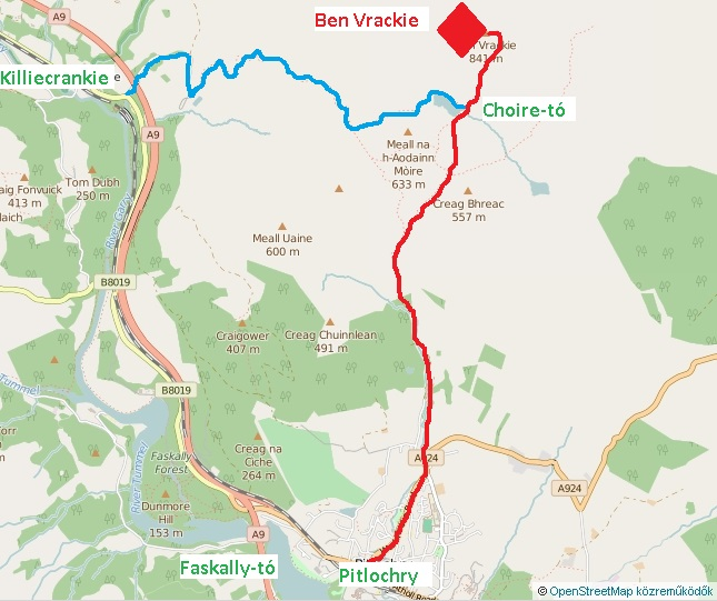 Trails leading to the Ben Vrackie